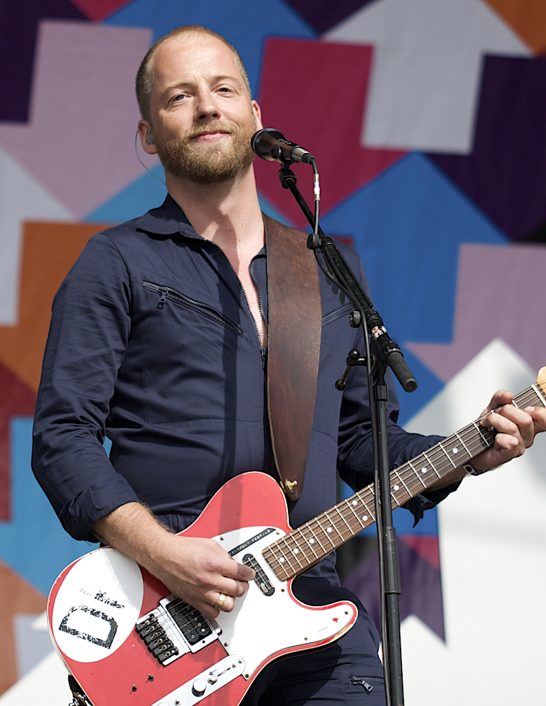 Kasper Eistrup, leadvocal and guitarist from the danish band Kashmir.